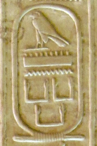 Cartouche 31, Abydos King List. Temple of Seti I, Abydos, Egypt